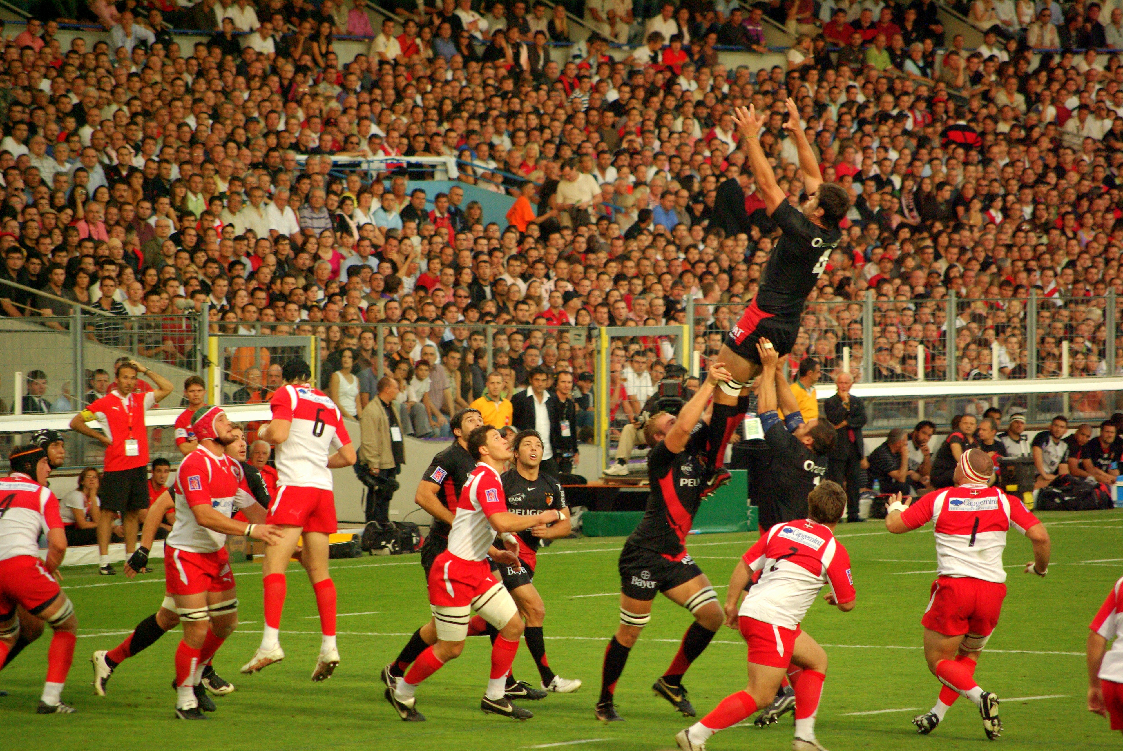 Line out. Picture from the rugby game Stade toulousain vs Biarritz olympique which took place in Stadium de Toulouse, Toulouse, 07/09/2008.